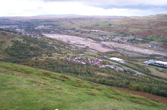 Steel works site, Ebbw Vale, Blaenau Gwent. Production at the Corus tin-plating works at Ebbw Vale ceased on 5 July 2002. The site was cleared within two years, leaving this ugly scar.